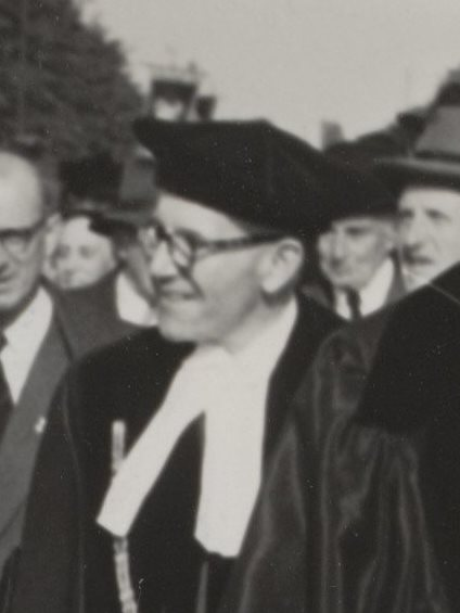 Marcel Bregstein, rector of the University of Amsterdam in 1952